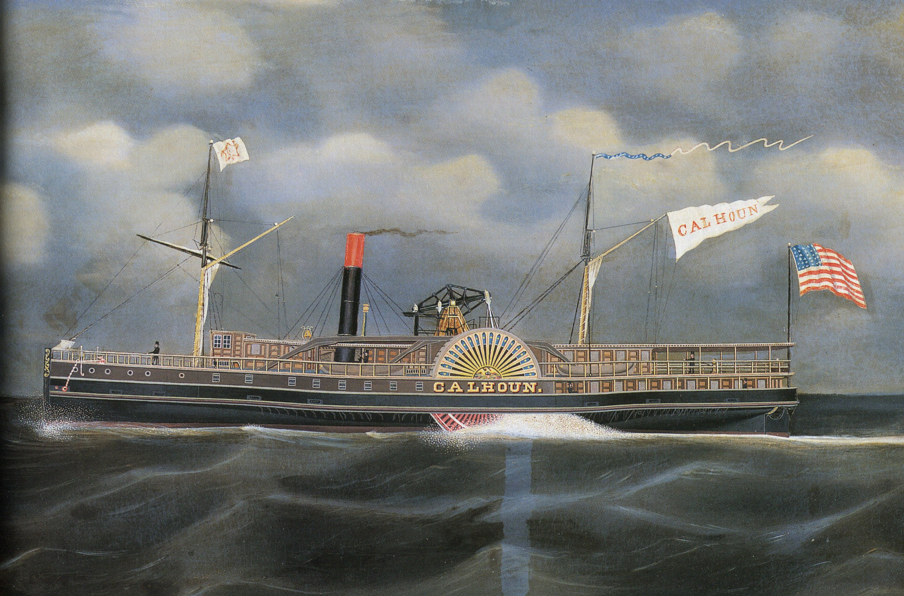 The coastal merchant steamer Calhoun, built in New York in 1851. Briefly employed by the Confederacy as a privateer and blockade runner during the American Civil War, Calhoun was captured by the Union in 1862 and commissioned as the gunboat USS Calhoun. From 1864, the vessel served as the US Army transport General Sedgewick, before returning to merchant service under the name Calhoun in 1866.